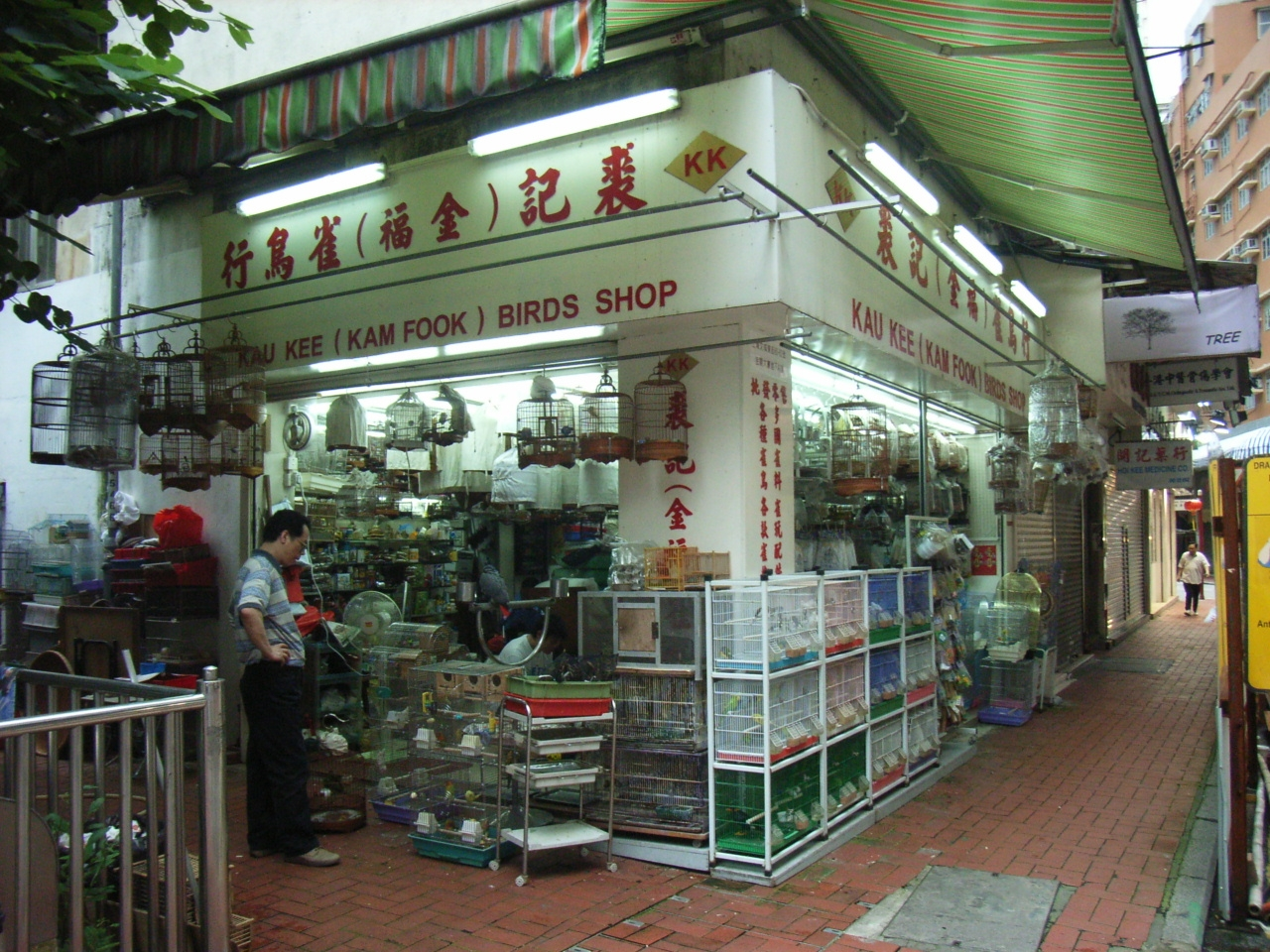 Sheung Wan 上環 User:Mad2006 is the photo author.